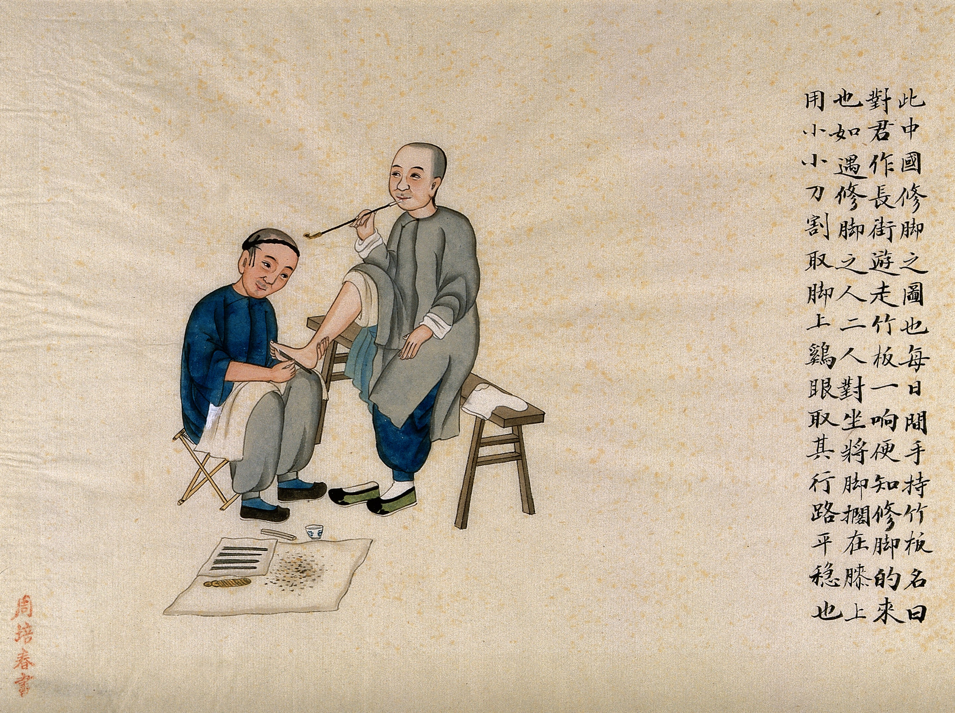 CHINESE MEDICINE: Foot massage. Iconographic Collections Keywords: foot massage; CHINESE MEDICINE